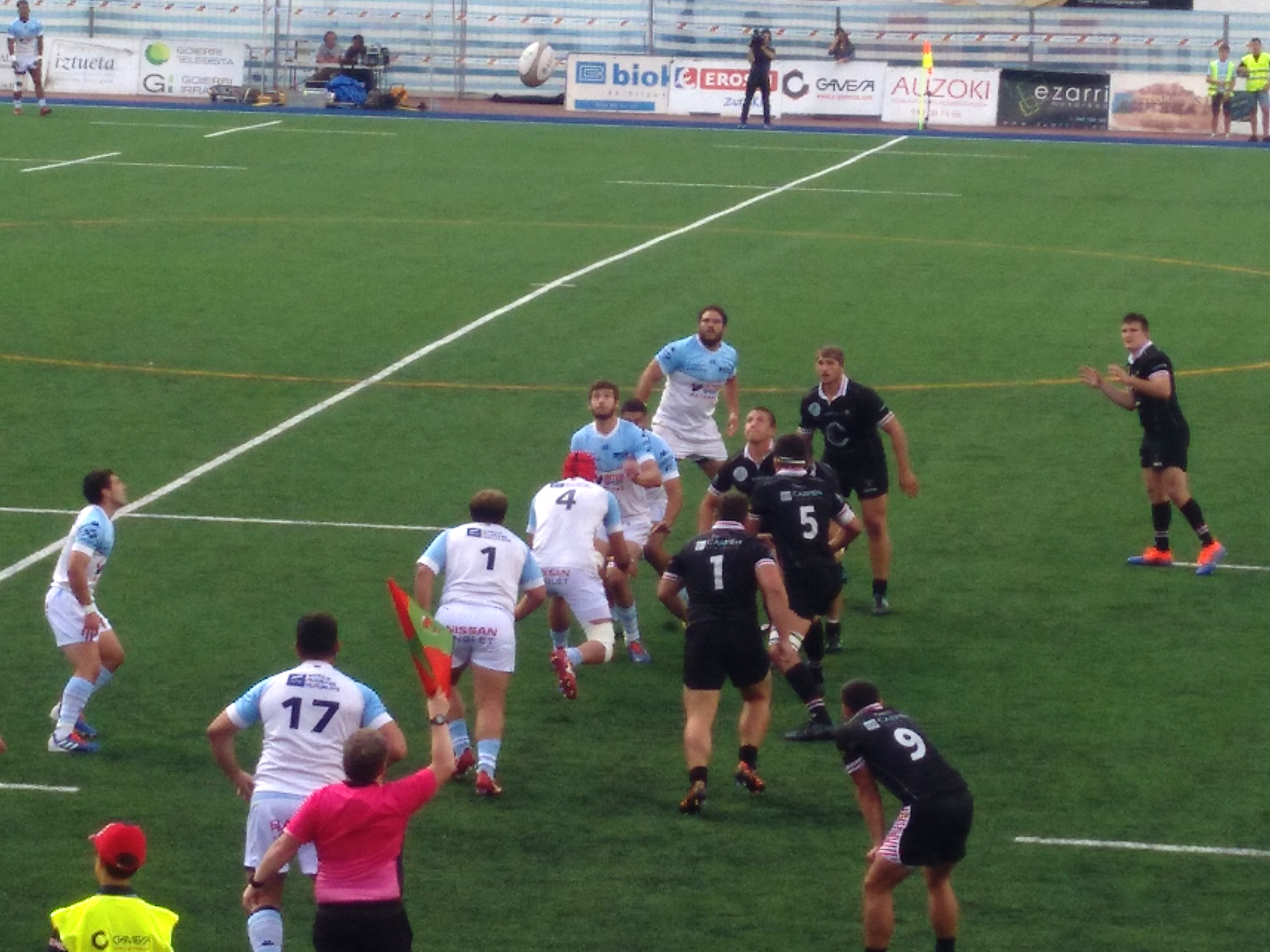 Aviron Bayonnais vs Biarritz Olympique, Euro Basque Rugby Challenge, 2019